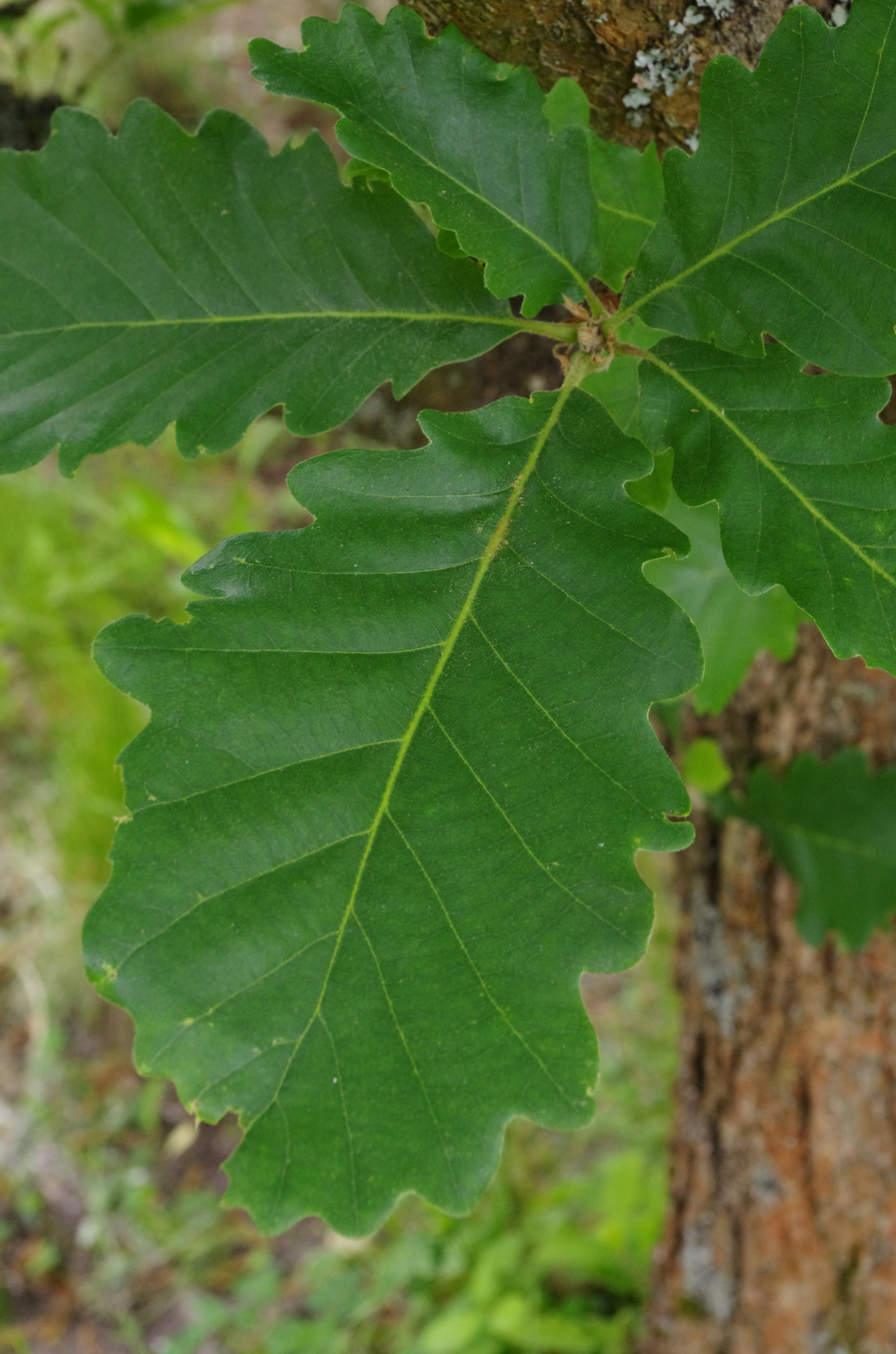 Quercus macranthera at the ÖBG Bayreuth